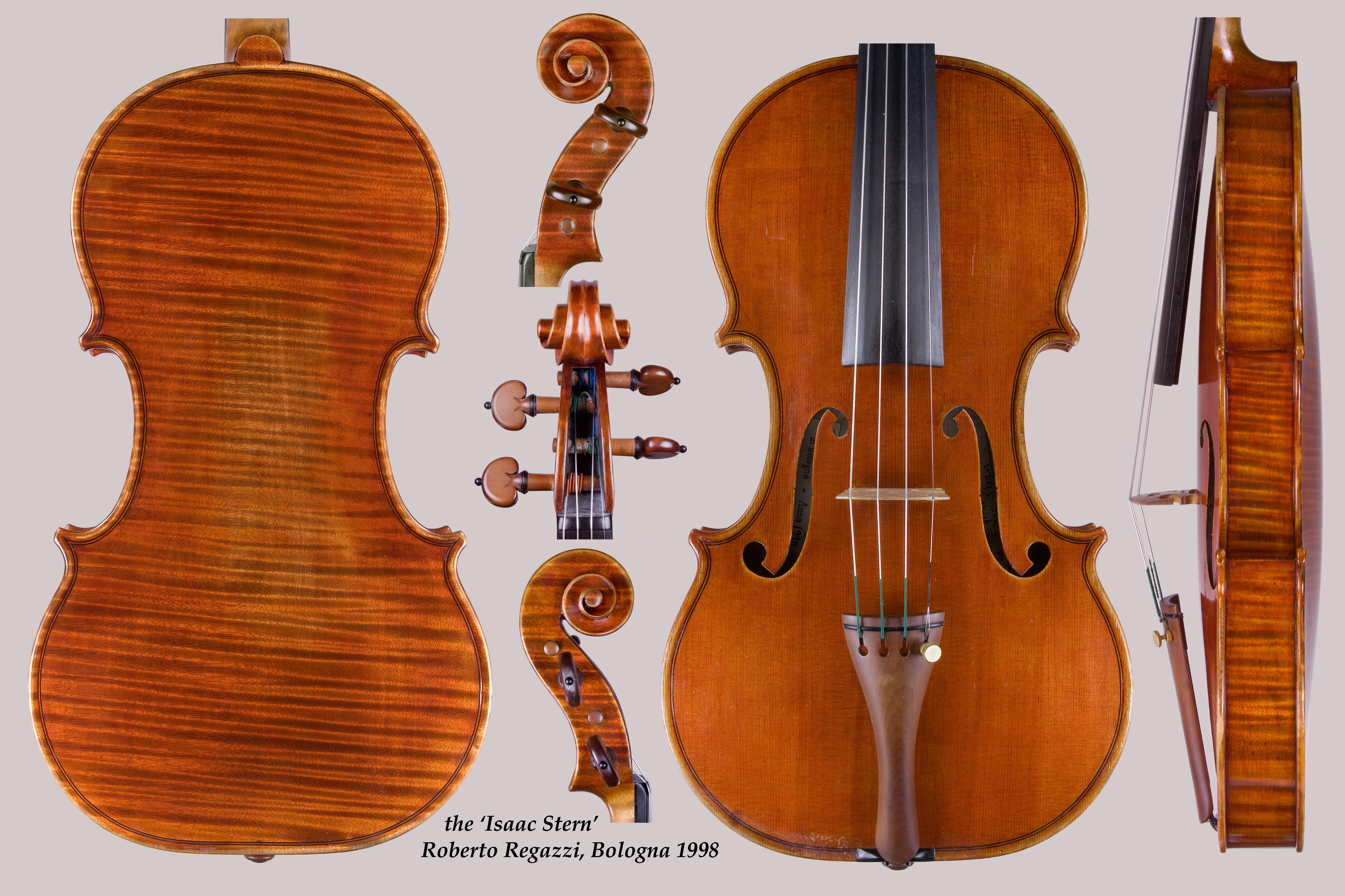 High resolution image of a violin made by Roberto Regazzi, completed in 1998, the "ISAAC STERN"